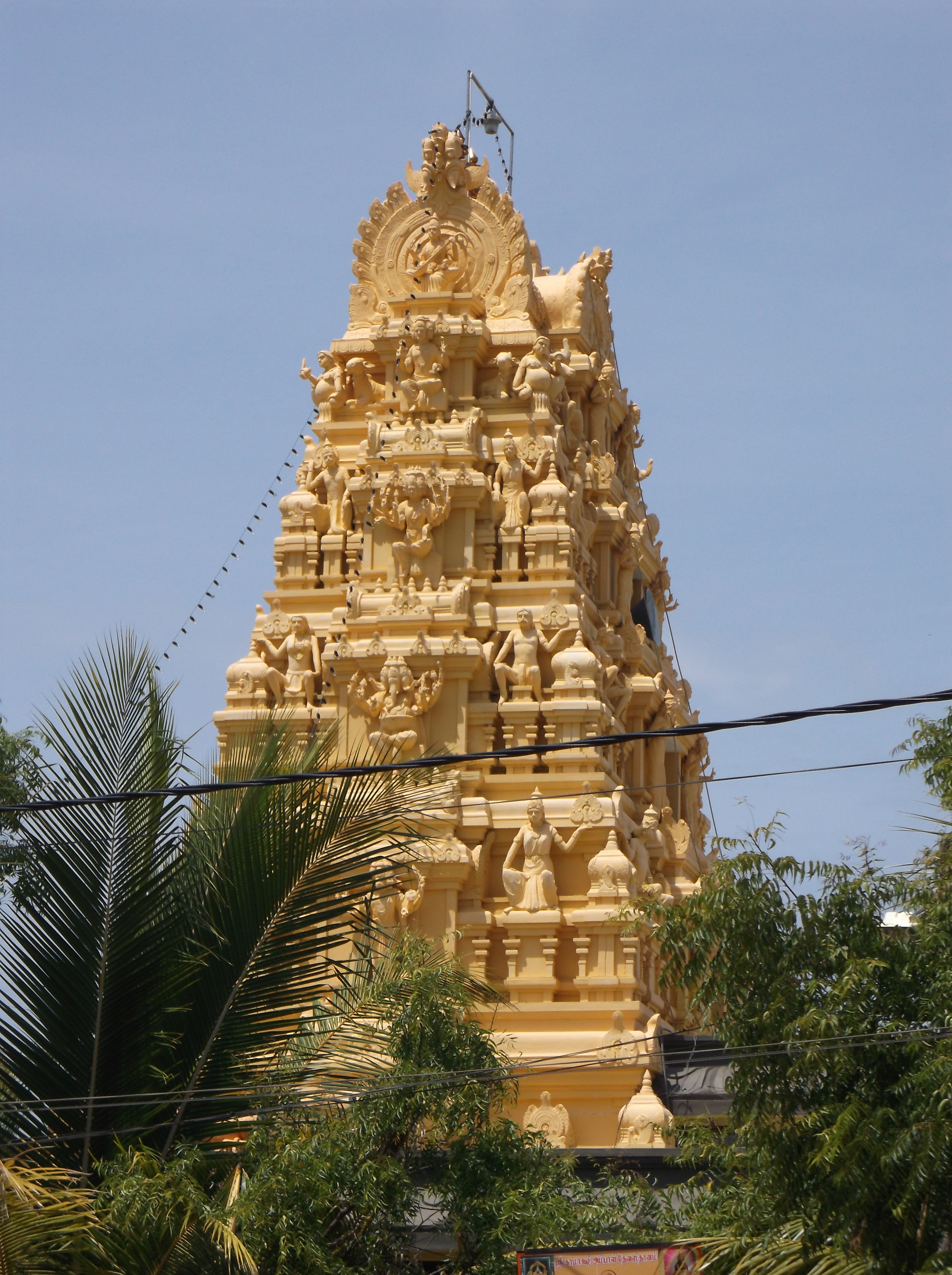 Mailampaveli Meenadshi amman alaya Sikharam